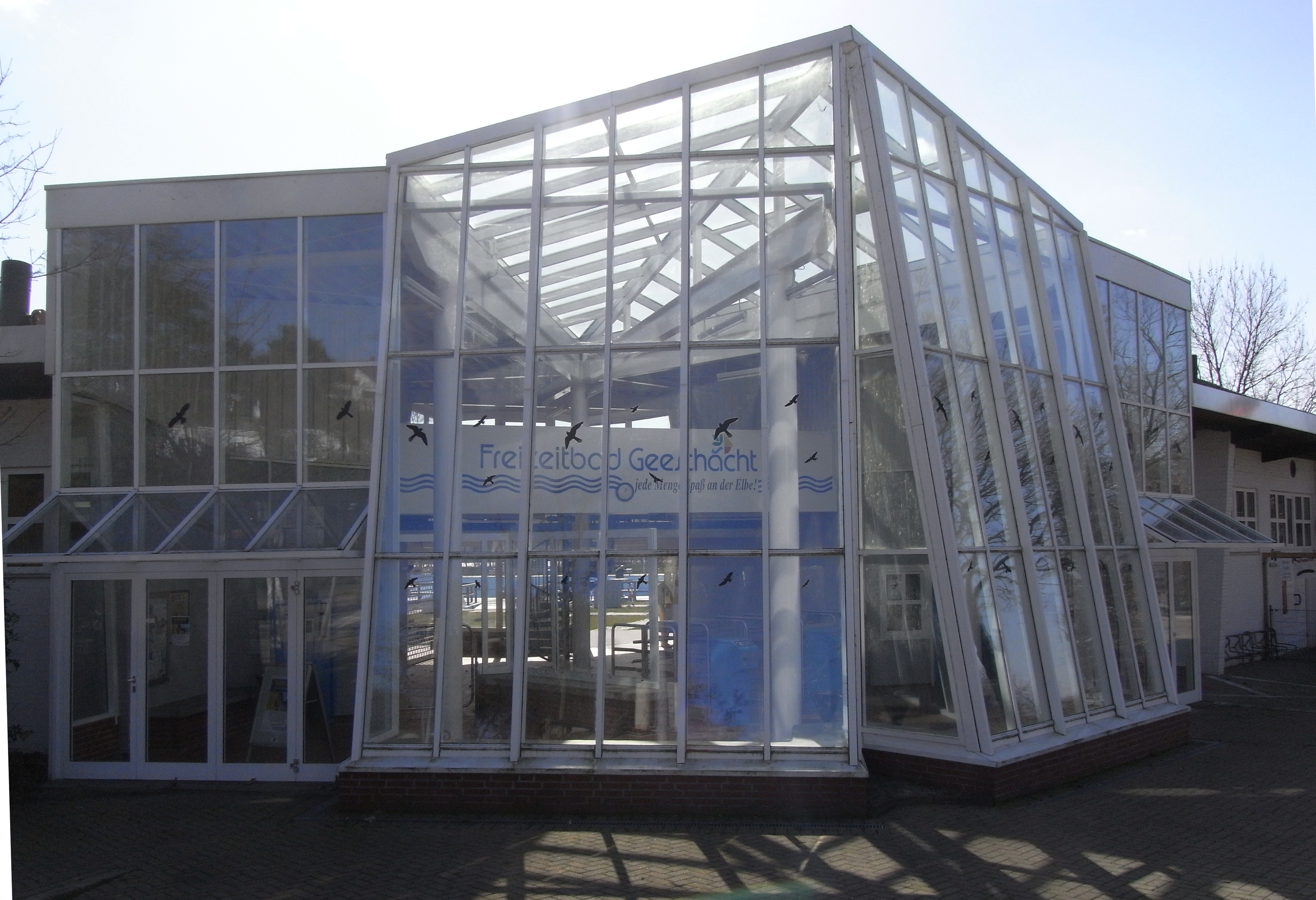 Waterpark in Geesthacht, Schleswig-Holstein, Germany.